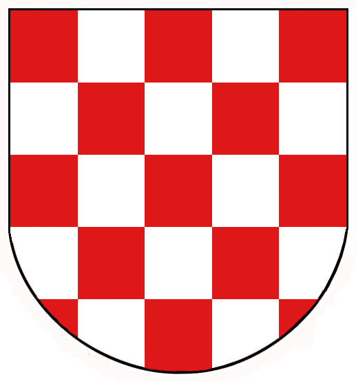 Croatian Chequy.